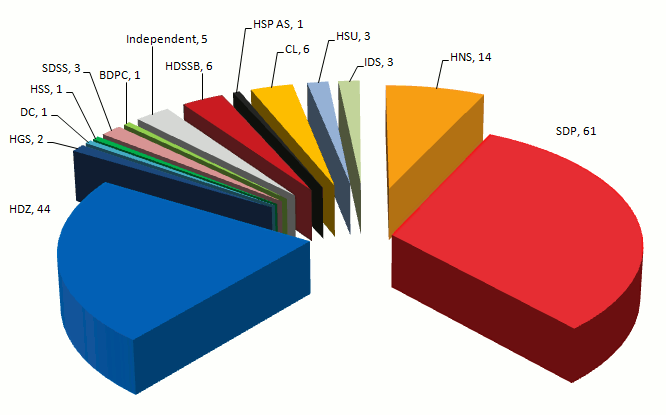 Parliamentary seats won by individual parties and independent candidates in Croatian parliamentary elections of 2011